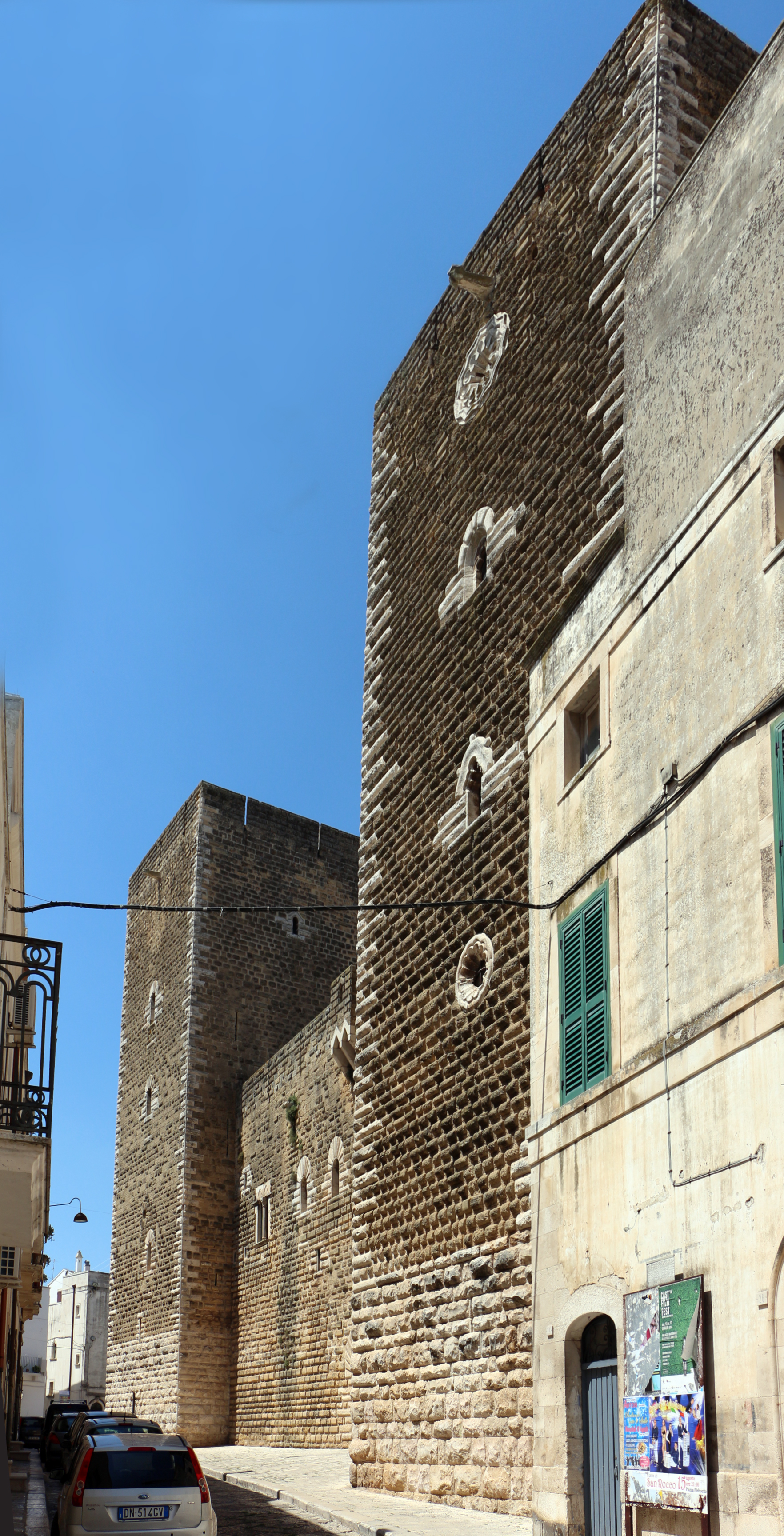 Castello normanno-svevo (Gioia del Colle)